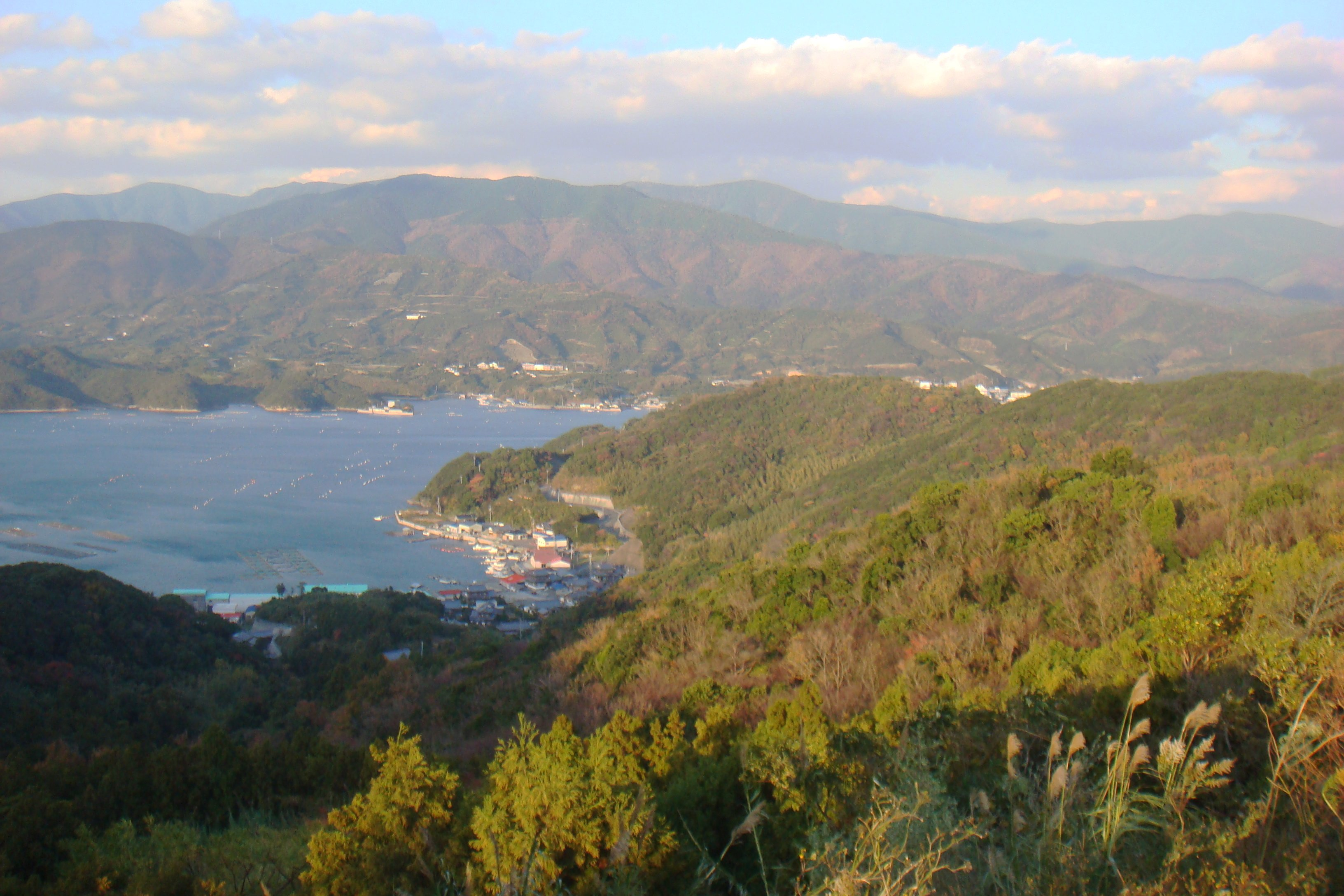 Mountains and ocean in Nishiumi district, which is part of Ainan in Ehime, Japan.